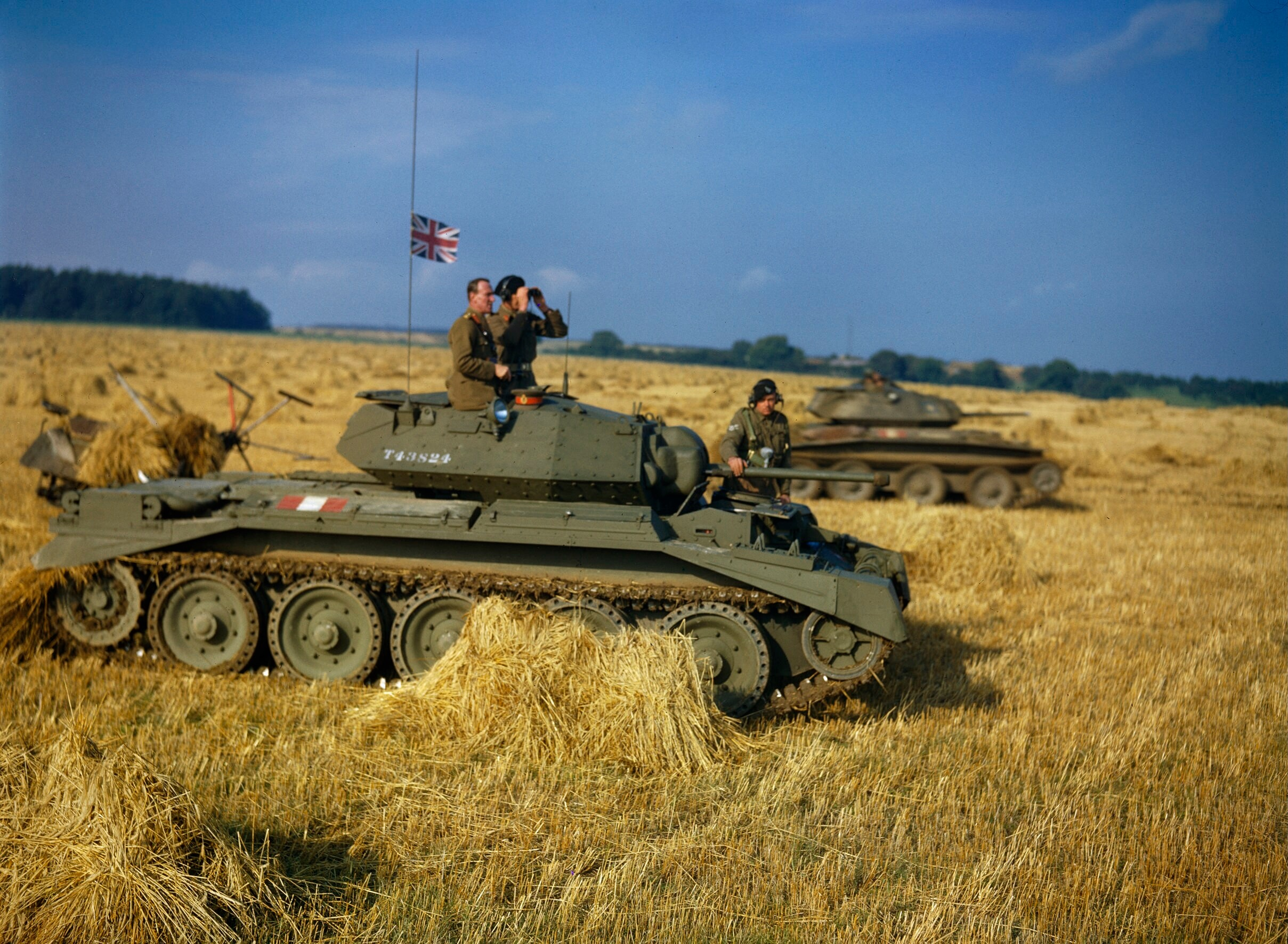 The British Commander-in-Chief Home Forces, General Sir Bernard Paget, in a Crusader tank (s/n T43824) of the 42nd Armoured Division during a large-scale exercise near Malton in Yorkshire (UK), 29 September 1942. The tank in the background was developed simultaneously with the Crusader and is the Mk V Covenanter.